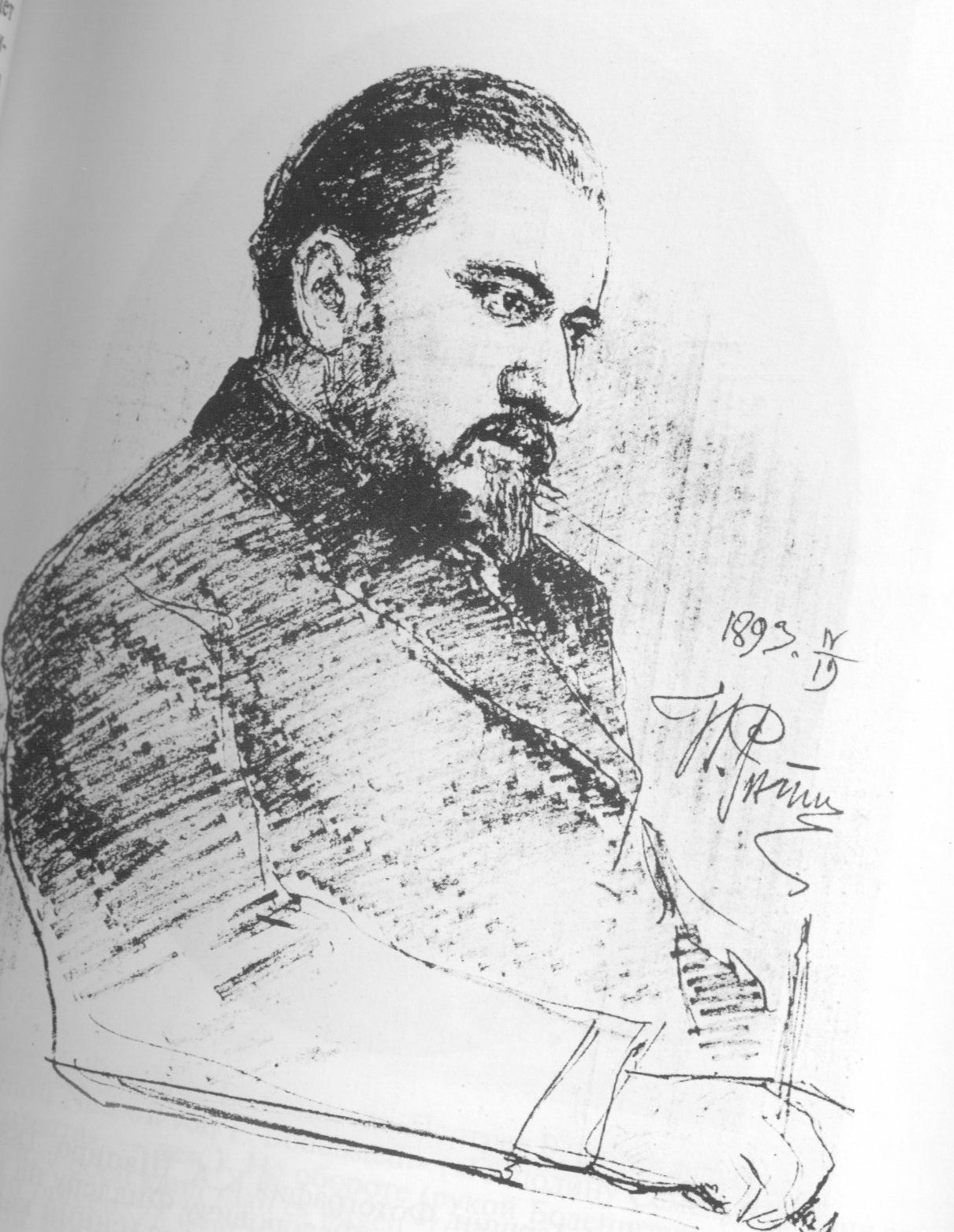 I. E. Repin. Friedrich Fiedler in the Russian literary society. Drawing. Pencil. 1893